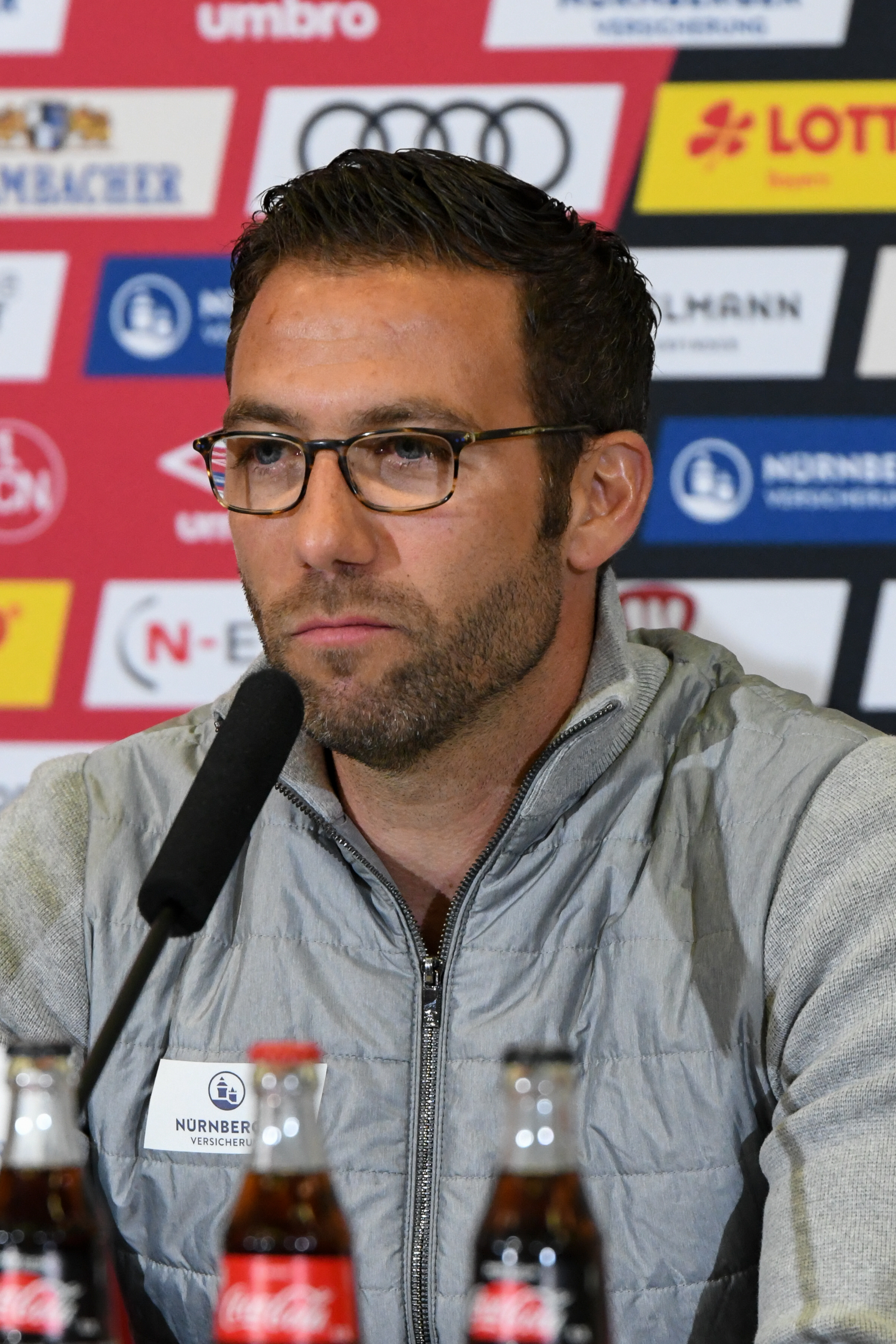 German Soccer League Season 2018/19, 31st match day 1. FC Nürnberg vs. 1. FC Bayern München. Picture shows: Boris Schommers of Nuremberg.